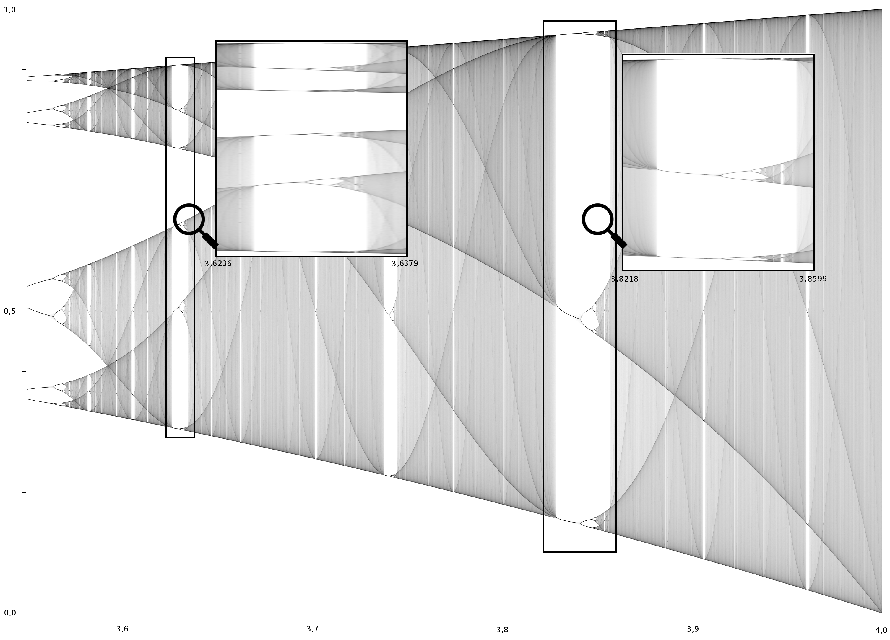 Magnifications on the bifurcation diagram of the logistic maps, with bounds. Made entirely from Subsection Bifurcation Diagram Logistic Map.png and Magnifying glass icon.svg. Magnifications are made by using an image editor (no computation involving the logistic map), bounding values are determined up to 3 pixels.